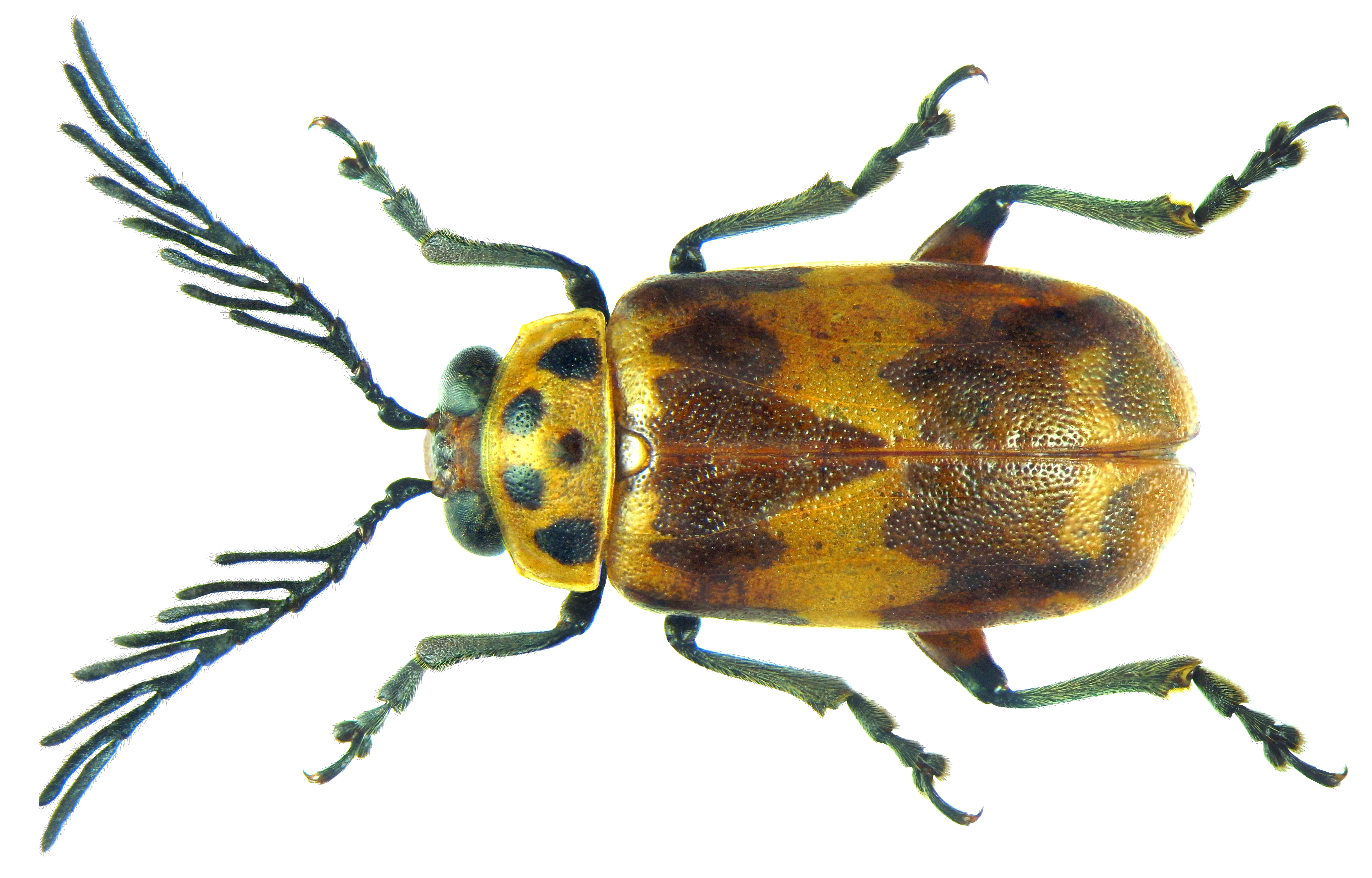 Family: Chrysomelidae Size: 11,5 mm Location: Kenya, Tsavo National Park, Kilaguni Lodge, 800 m leg. U.Schmidt, 28.-30.XI.1991; det. T.Wagner, 2012 Photo: U.Schmidt, 2013